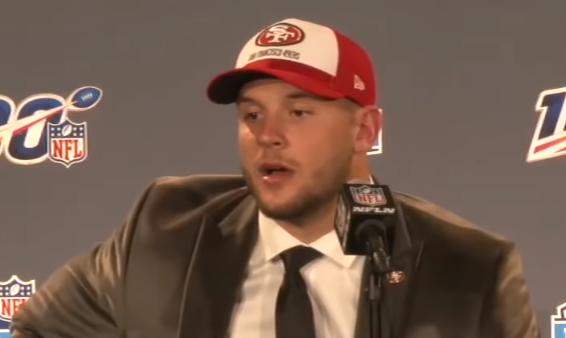 Nick Bosa in 2019